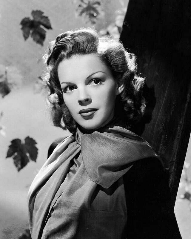 A promotional shot of Judy Garland